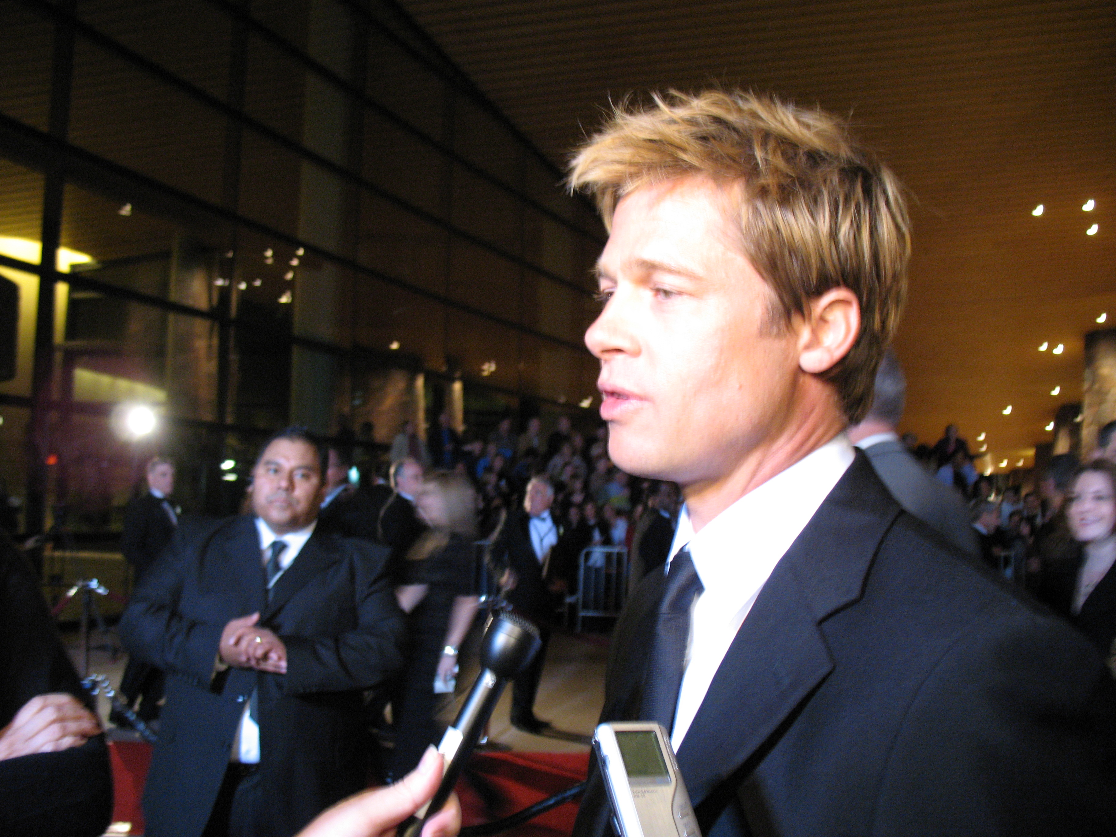 That's my hand holding the microphone!